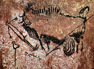 Lascaux Caves - Prehistoric Paintings.